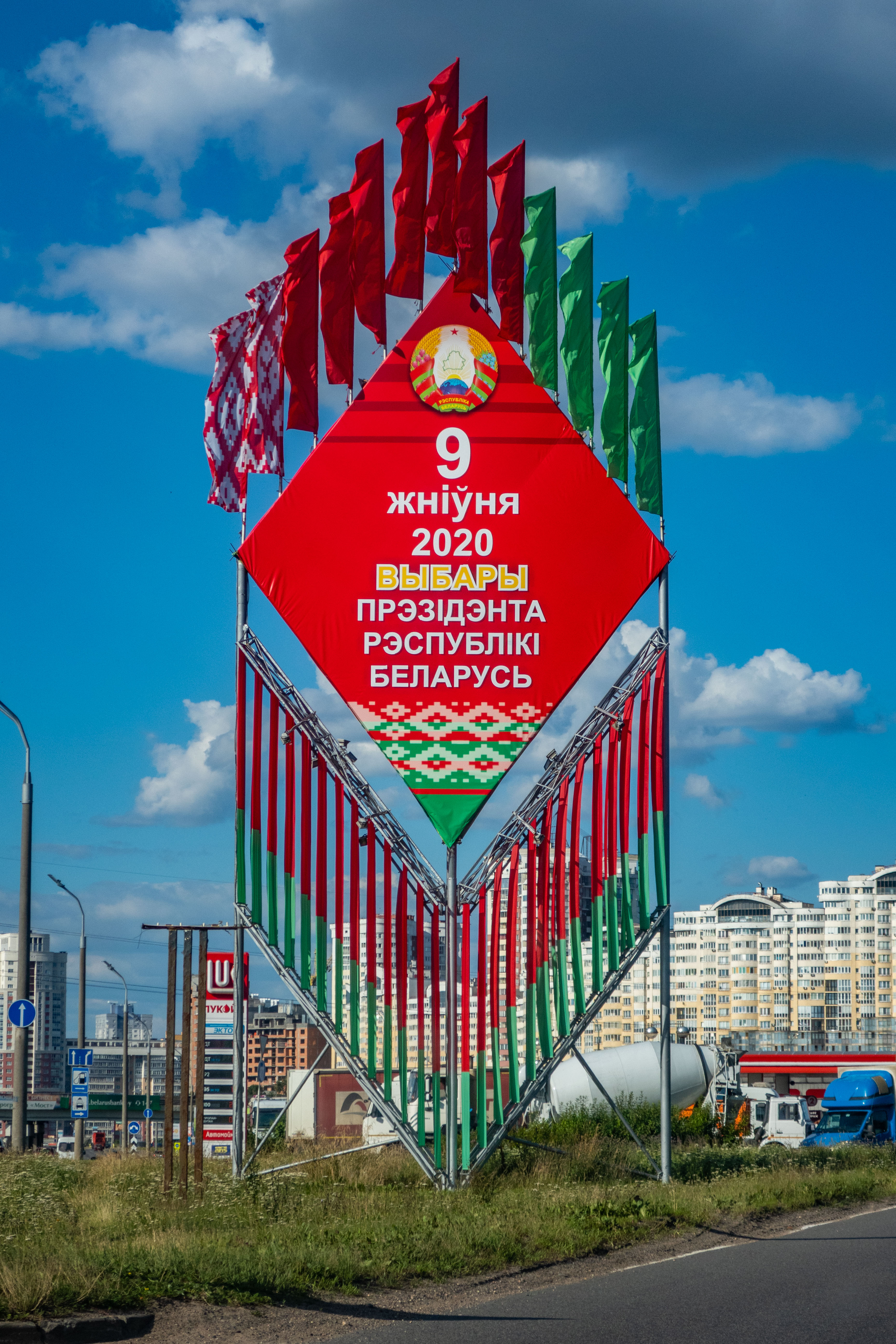 Presidential elections 2020 banner. Minsk, Belarus